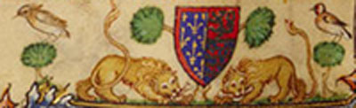 Bonne of Bohemia